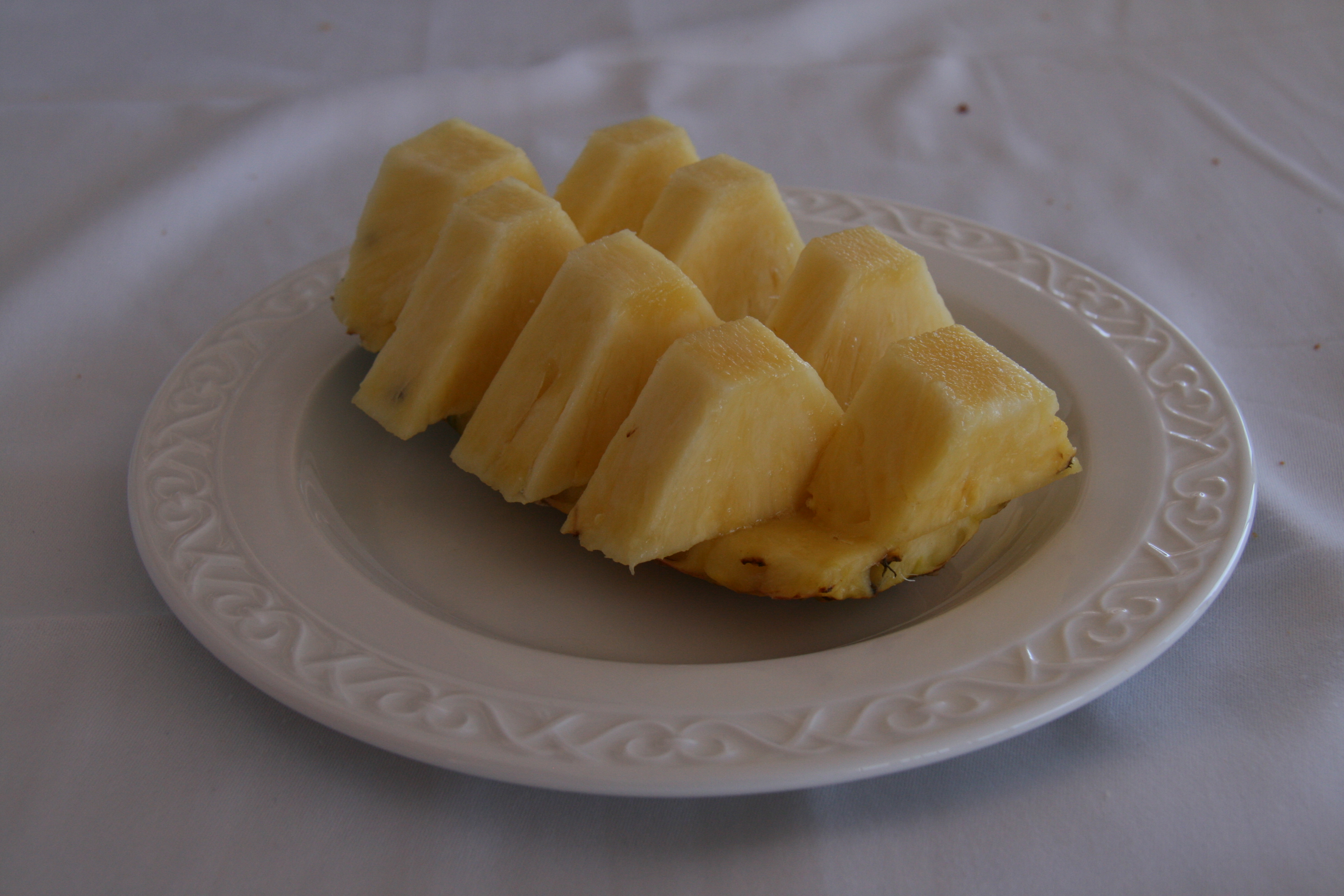 Pineapple decorated